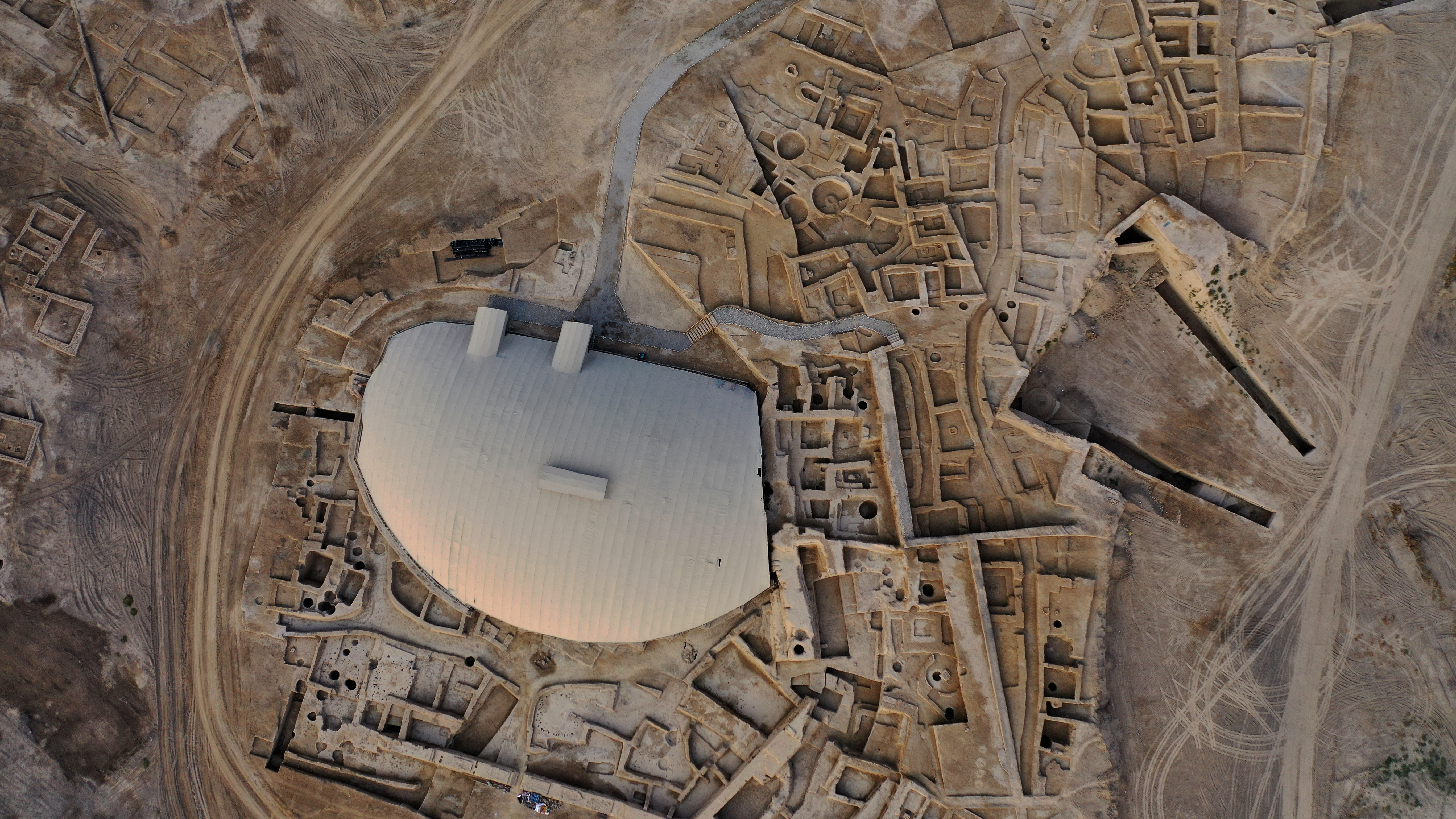 Археологический объект, расположенный в г. Туркестан, Туркестанской области Республики Казахстан